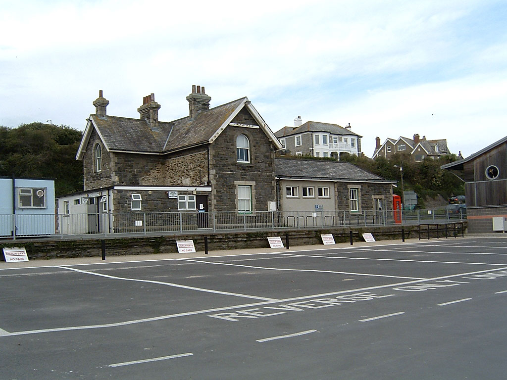 The main station building at Padstow as photographed in 2004 when it was in use as a Tourist Information office.